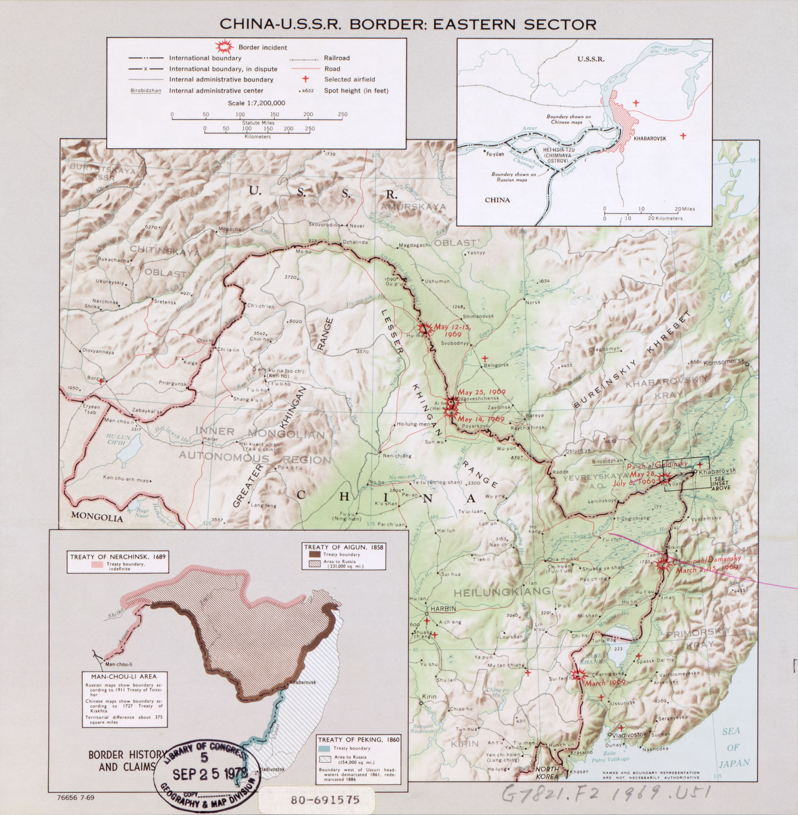 Scale 1:7,200,000. "76656 7-69." Relief shown by shading and spot heights. Available also through the Library of Congress Web site as a raster image. Includes insets of "Border history and claims" and Khabarovsk area. AACR2